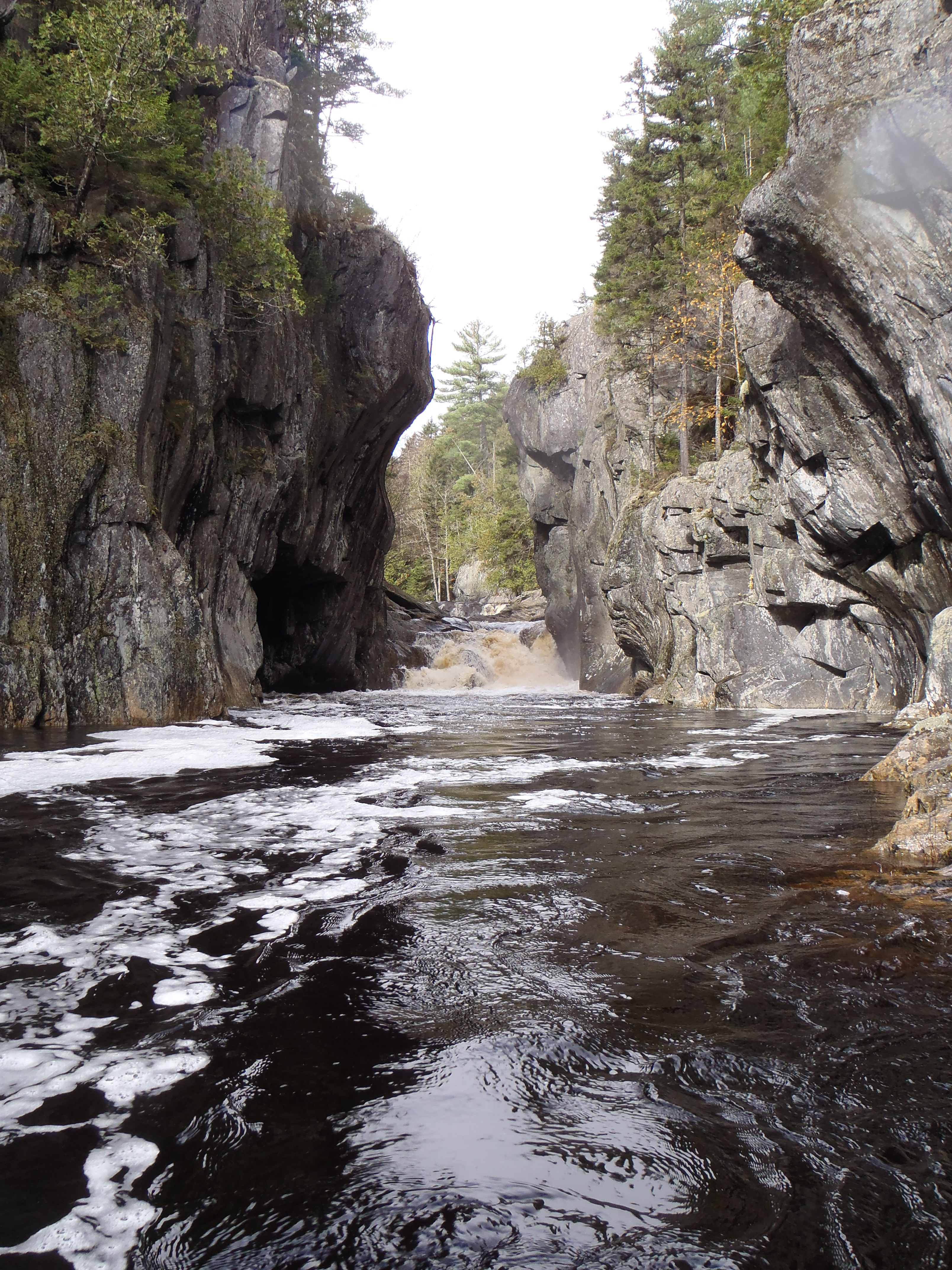 A view of the rapid wedge in Gulf Hagas